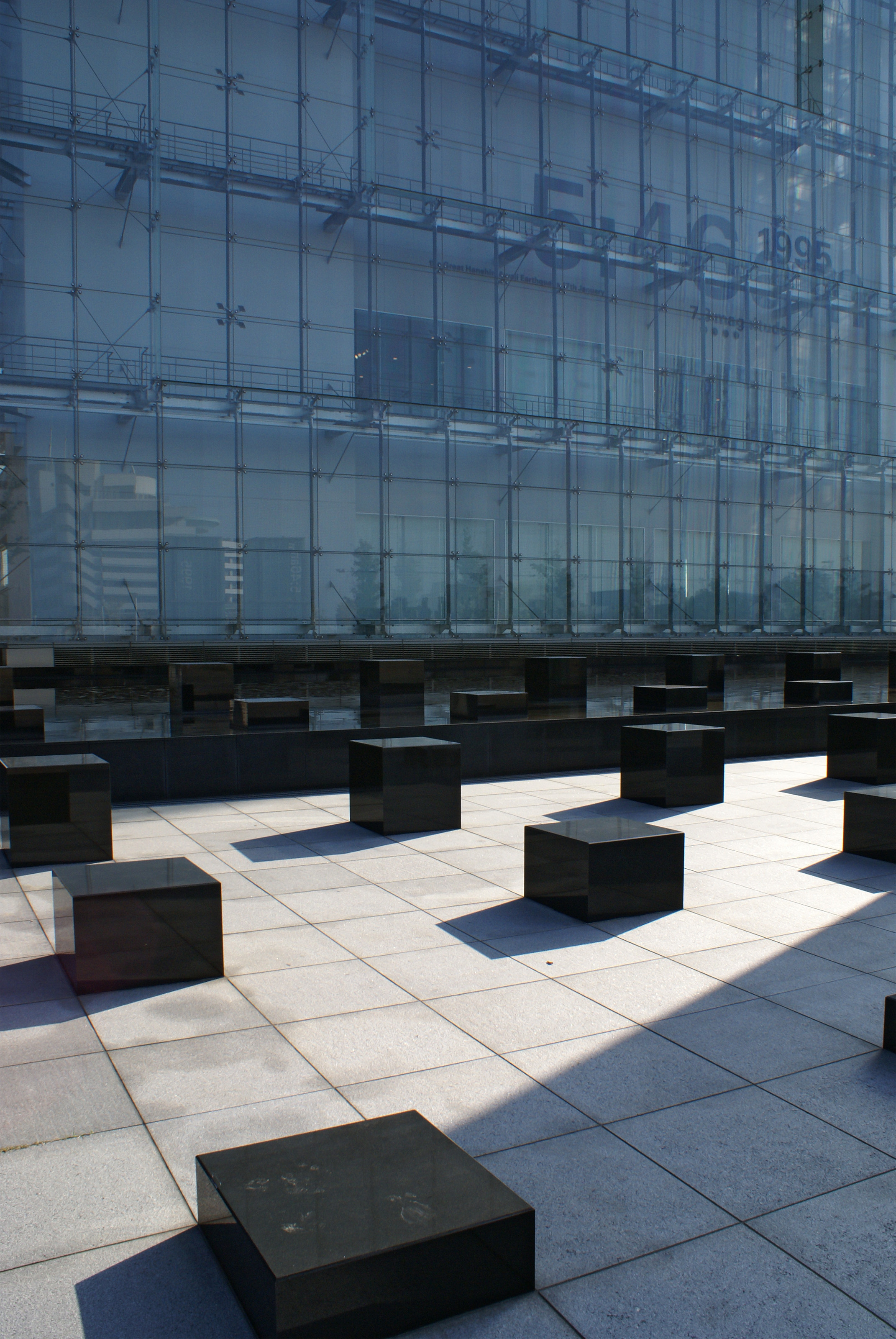 Disaster Reduction and Human Renovation Institution's "The Disaster Reduction Museum" in HAT Kobe, Kobe, Hyogo, Japan